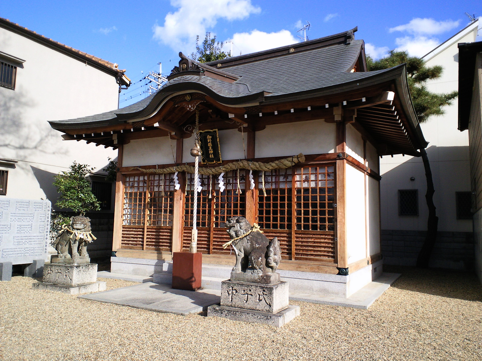 Shikibe-Minoagatanushi Jinja (Shrine) in Yao, Osaka